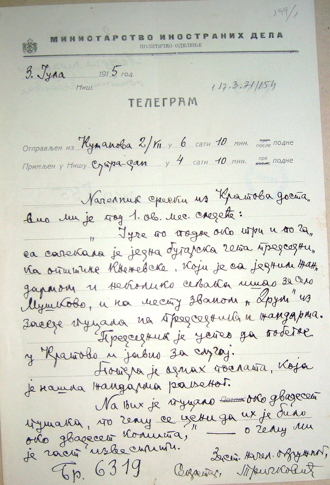 Telegram from Secretary of the District of Kratovo to MFA in Nis, for the attack on President of municipality by the Bulgarian company at a place called "Drum." (Kumanovo, July 2, 1915) This media file is produced by Wikipedian in Residence in Category:Wikipedian in Residence at DARM in 2016.